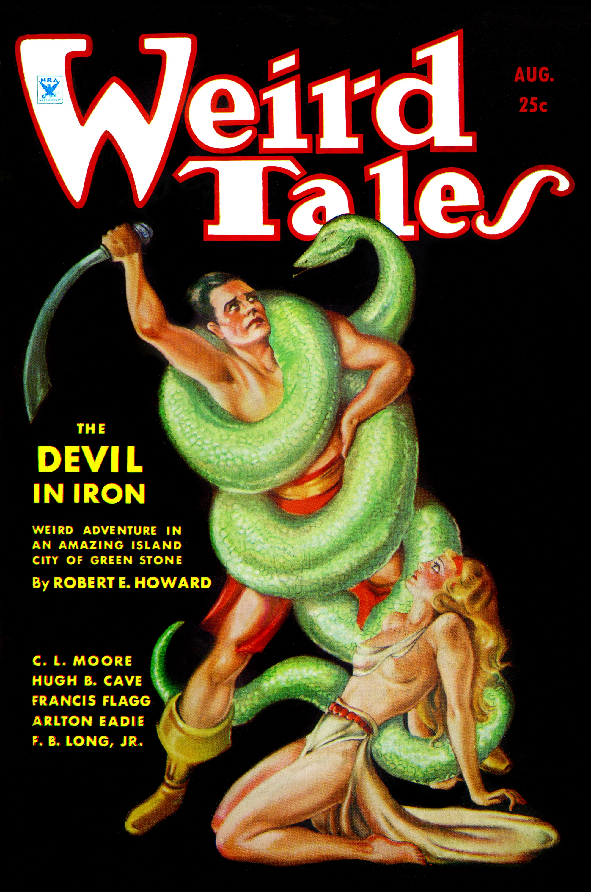 Cover of Weird Tales (August 1934): The feature story is Robert E. Howard's "The Devil in Iron".